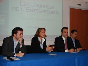 Stéphane Distinguin, Sylvie Spalmacin-Roma, Christophe Palandre, Olivier Heckmann at Paris Media Center in France